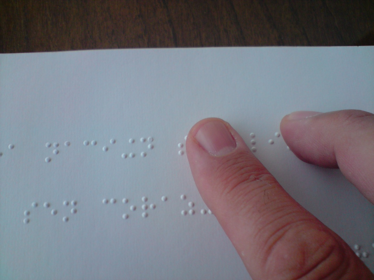 A person reading a braille book with two fingers